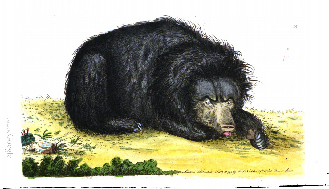 Image of Ursine Bradypus or Ursiform Sloth, now called Sloth bear by F.P Nodder in book by G. Shaw.